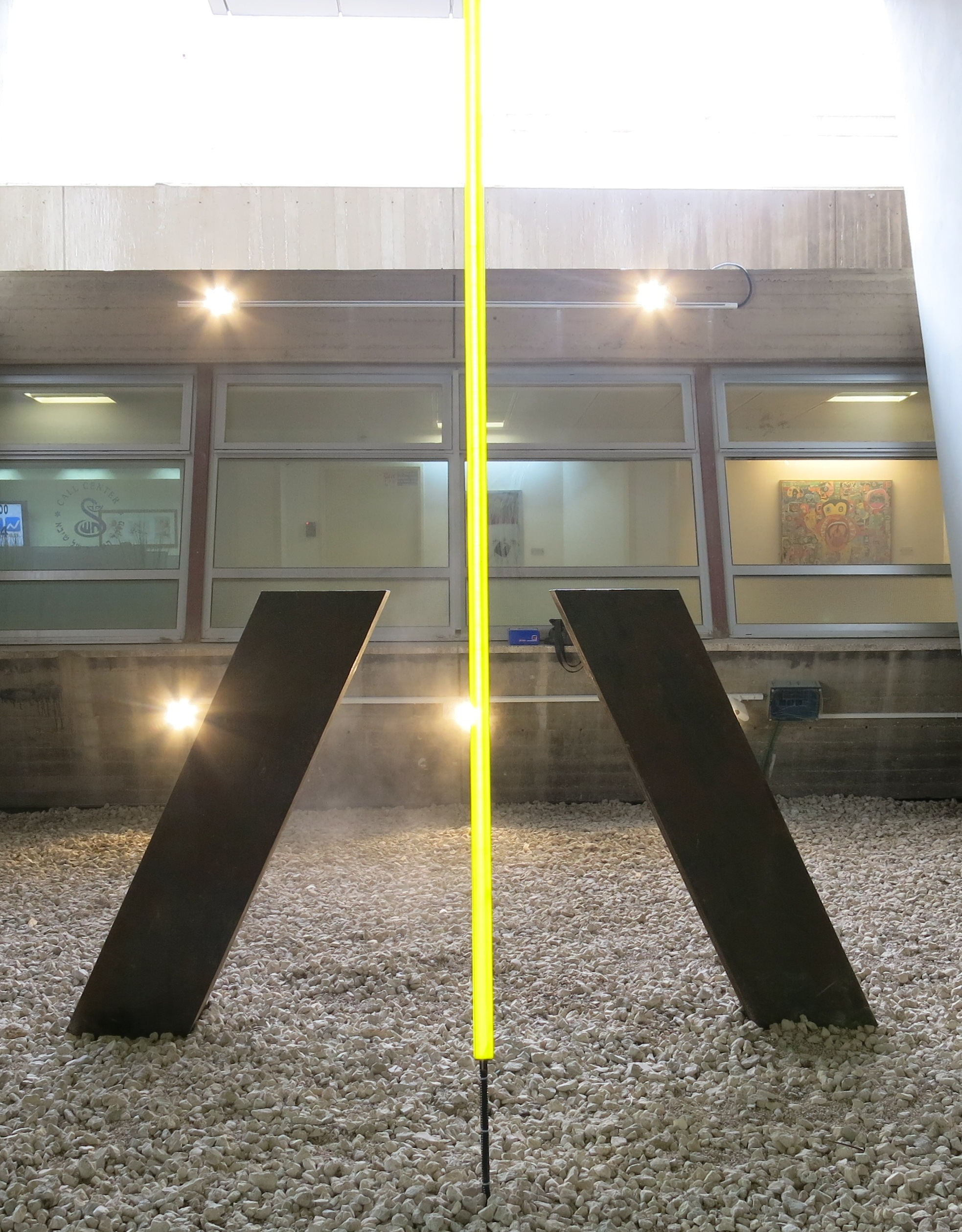 Artwork of Carmit Weizman